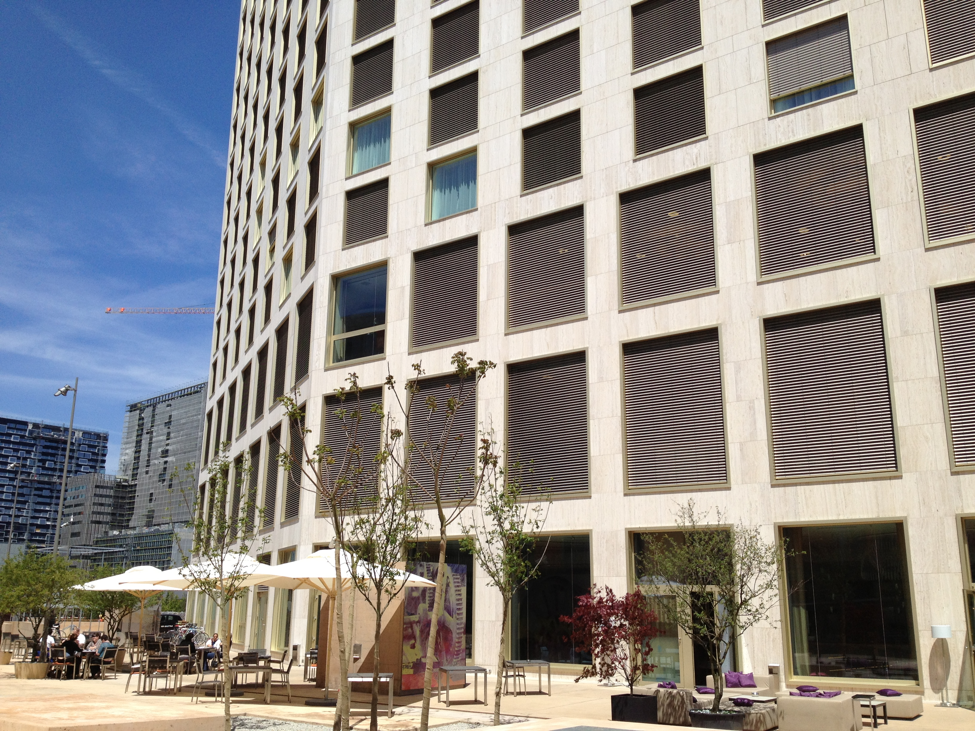 View on the terrace of the Equinox restaurant in Summer